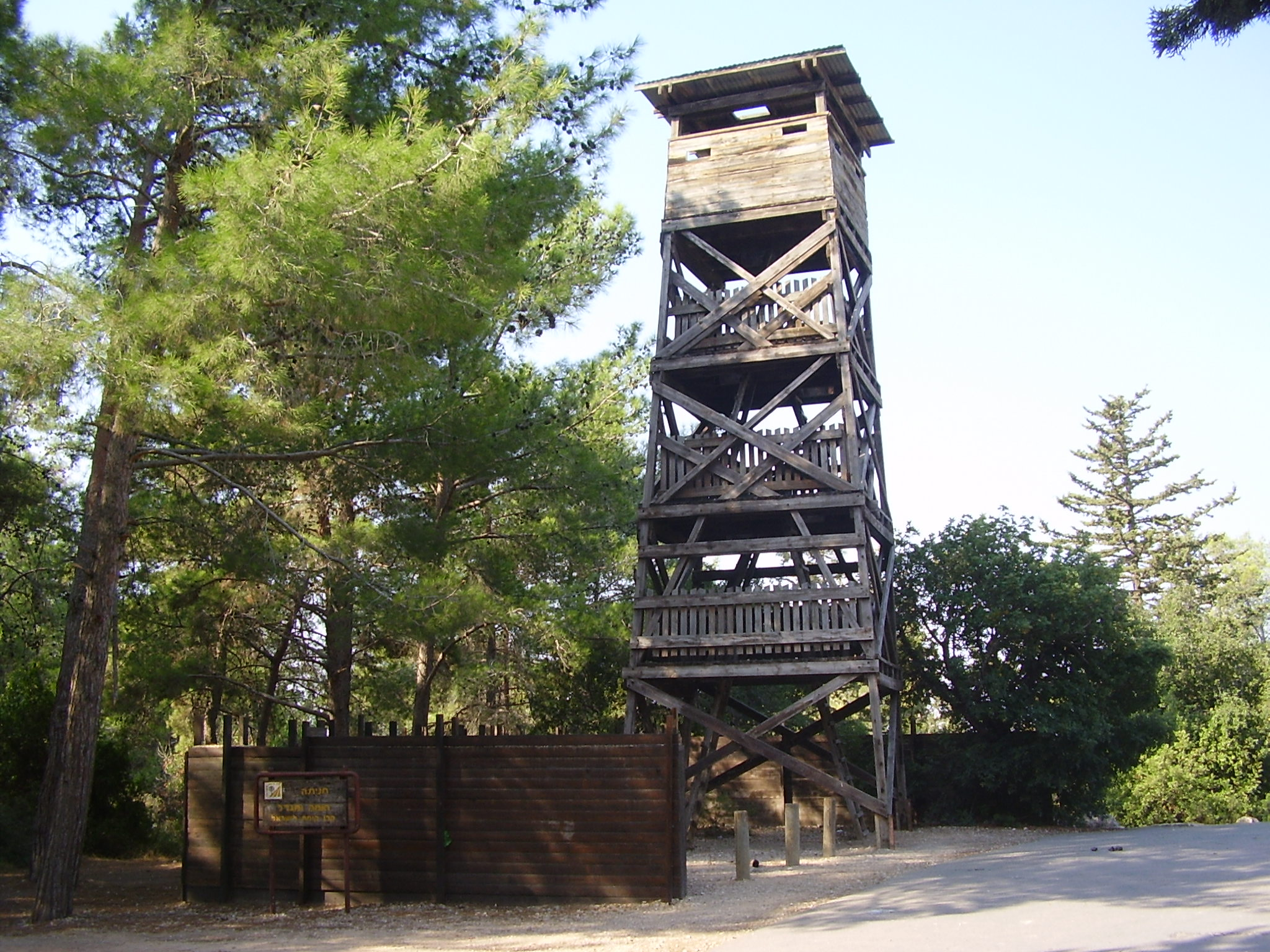 reconsructed watch tower in lower hanita, upper galilee מגדל שמירה משוחזר בחניתה תחתית